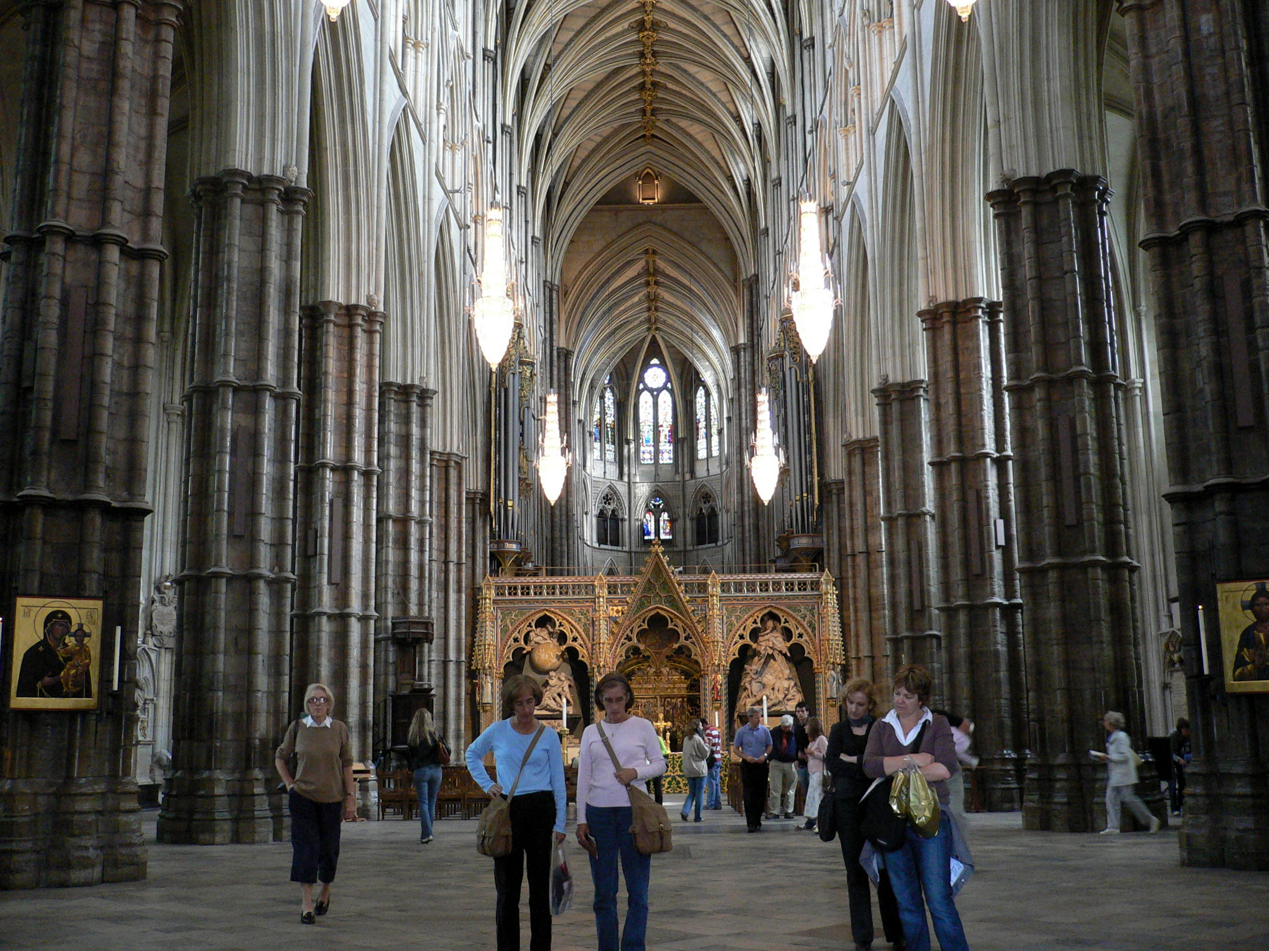 Westminster Abbey, Nave. Isacc Newton's monument and grave in the background